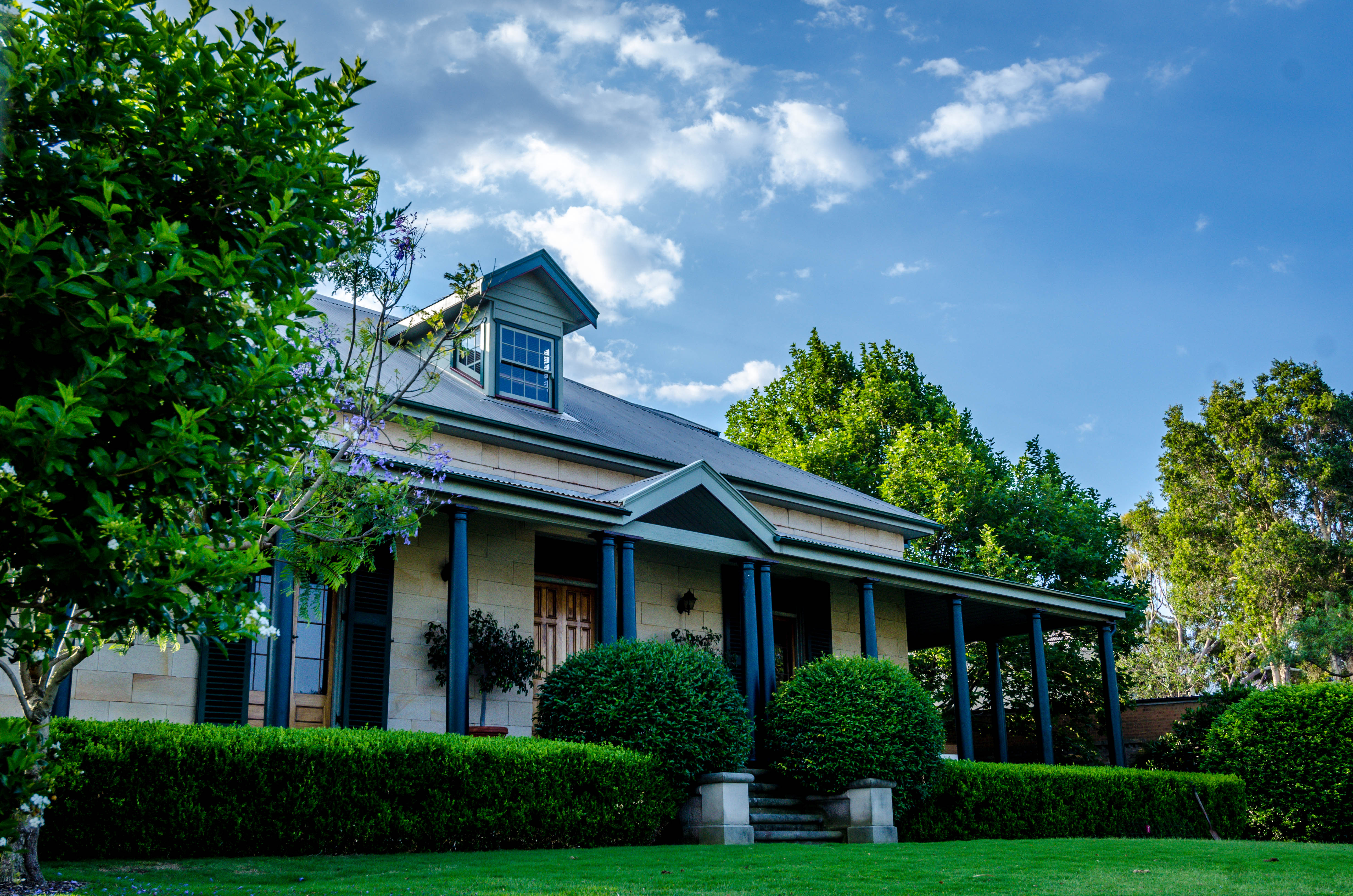 Former Henry Parkes residence: Hampton Villa, 12B Grafton Street, Balmain, Sydney